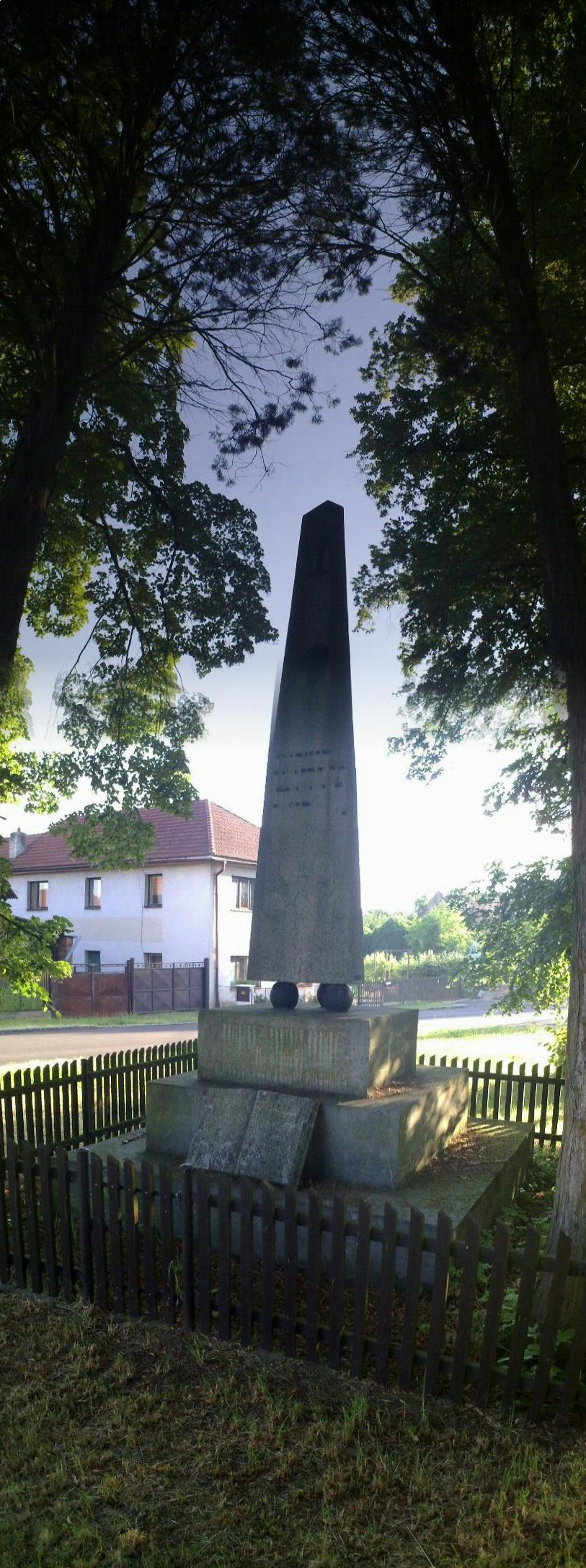 War memorial Morašice